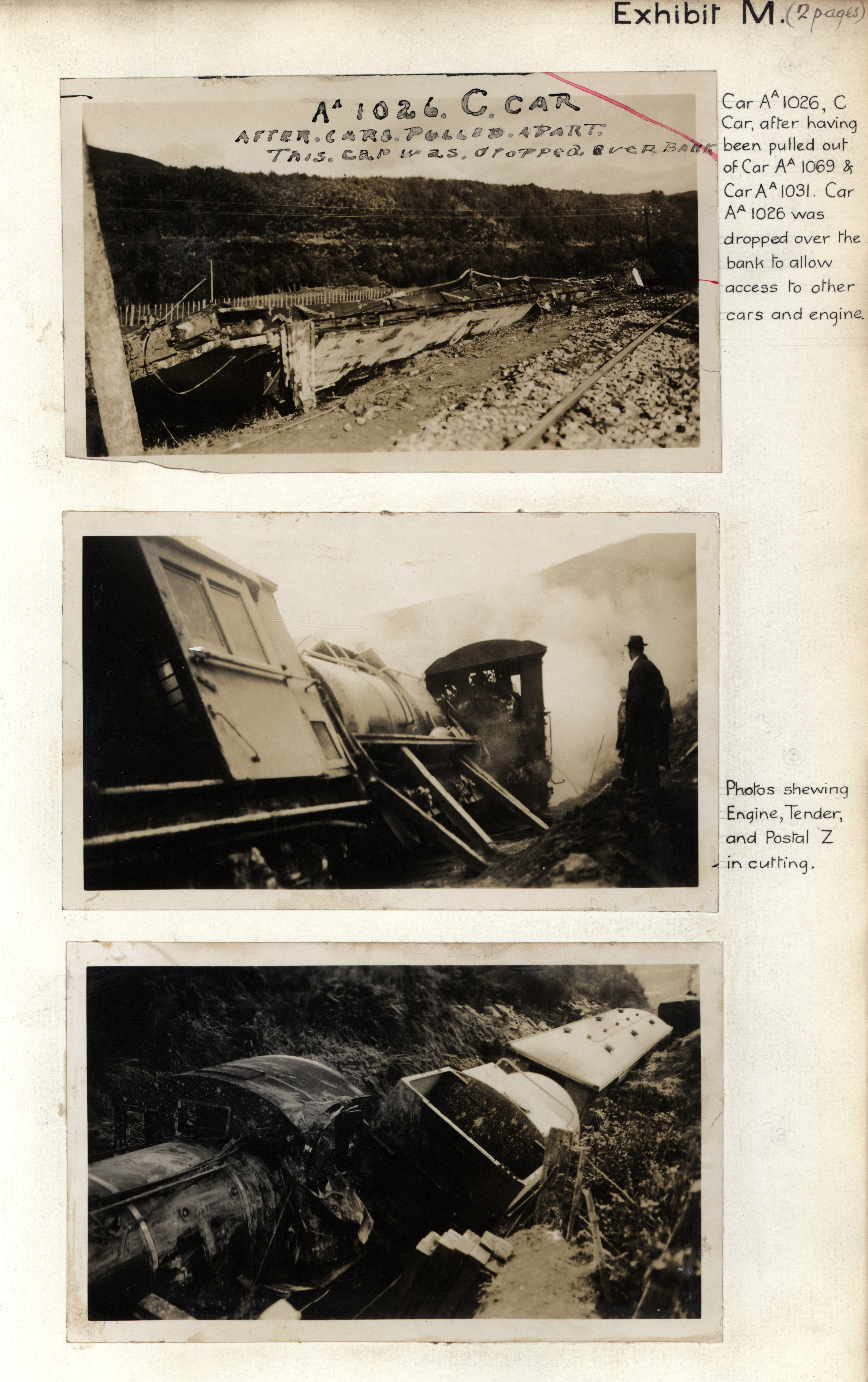 Ōngarue Rail Accident, 6 July 1923 In the early hours of 6 July 1923, New Zealand’s first major rail accident claimed the lives of 17 people. The southbound Auckland to Wellington rounded a sharp bend but was not able to stop before hurtling into an enormous landslide that had covered the tracks at Ōngarue, north of Taumaranui. Hidden within the landslide was a boulder measuring about 1.25 metres in diameter. The engine was able to push the boulder a short distance before the weight of it threw the engine, the tender and the postal van off the track. The worst damage occurred in the back of the train, where three wooden carriages were telescoped by the force of the impact. A gas container under the third carriage burst into flames, but was extinguished by a further slip. Survivors in these carriages had to be cut free. 12 people were killed outright in the impact. A further three died of their injuries on the way to the hospital. 28 people were injured. The engine driver and the fireman were both badly were burnt. The disaster at Ōngarue remains country’s third-deadliest rail tragedy, behind the Tangiwai (1953) and Hyde (1943) accidents, which killed 151 and 21 people respectively. A board of inquiry found that the accident was the result of heavy rain which caused the slip. The fitting of electric lights in railway carriages was made a priority to avoid the risk of fire from the gas containers, and carriages were strengthened to reduce the chance of “telescoping” into one another in future accidents. These photographs make up page 1 of ‘Exhibit M’ of the Board of Enquiry into the accident. Archives Reference: ABIN W3337 106 (R19598921) Material from Archives New Zealand